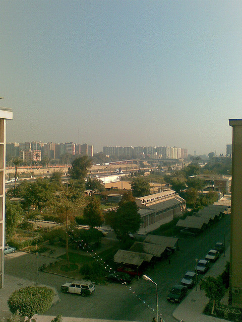 View from Faculty of Science , Assiut University